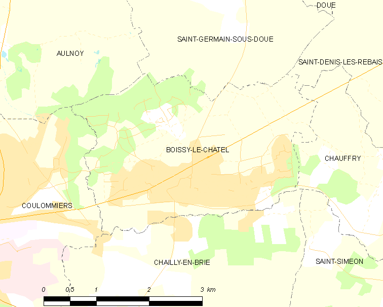 Map of French municipality Boissy-le-Châtel